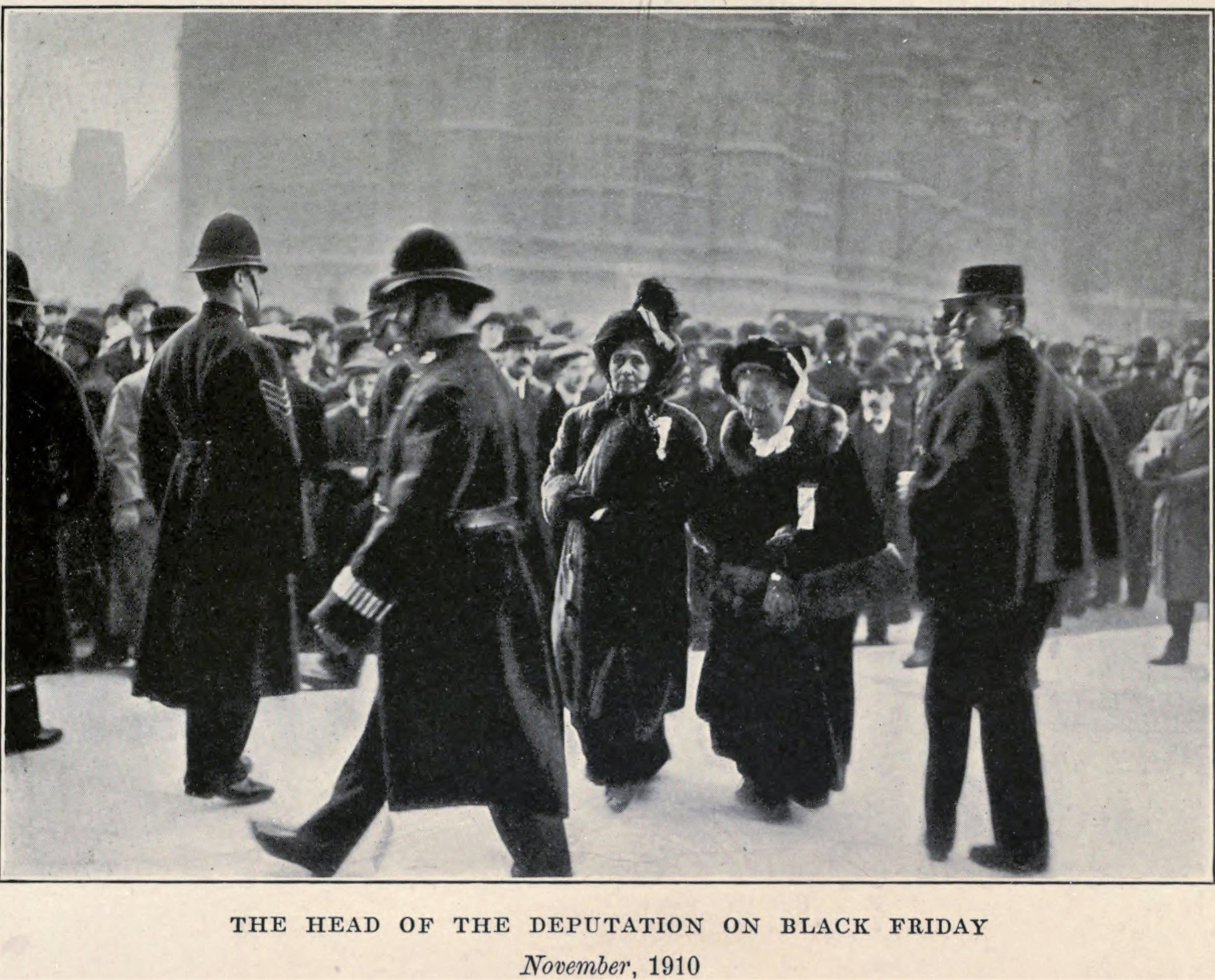 Pankhurst at the Black Friday demonstration